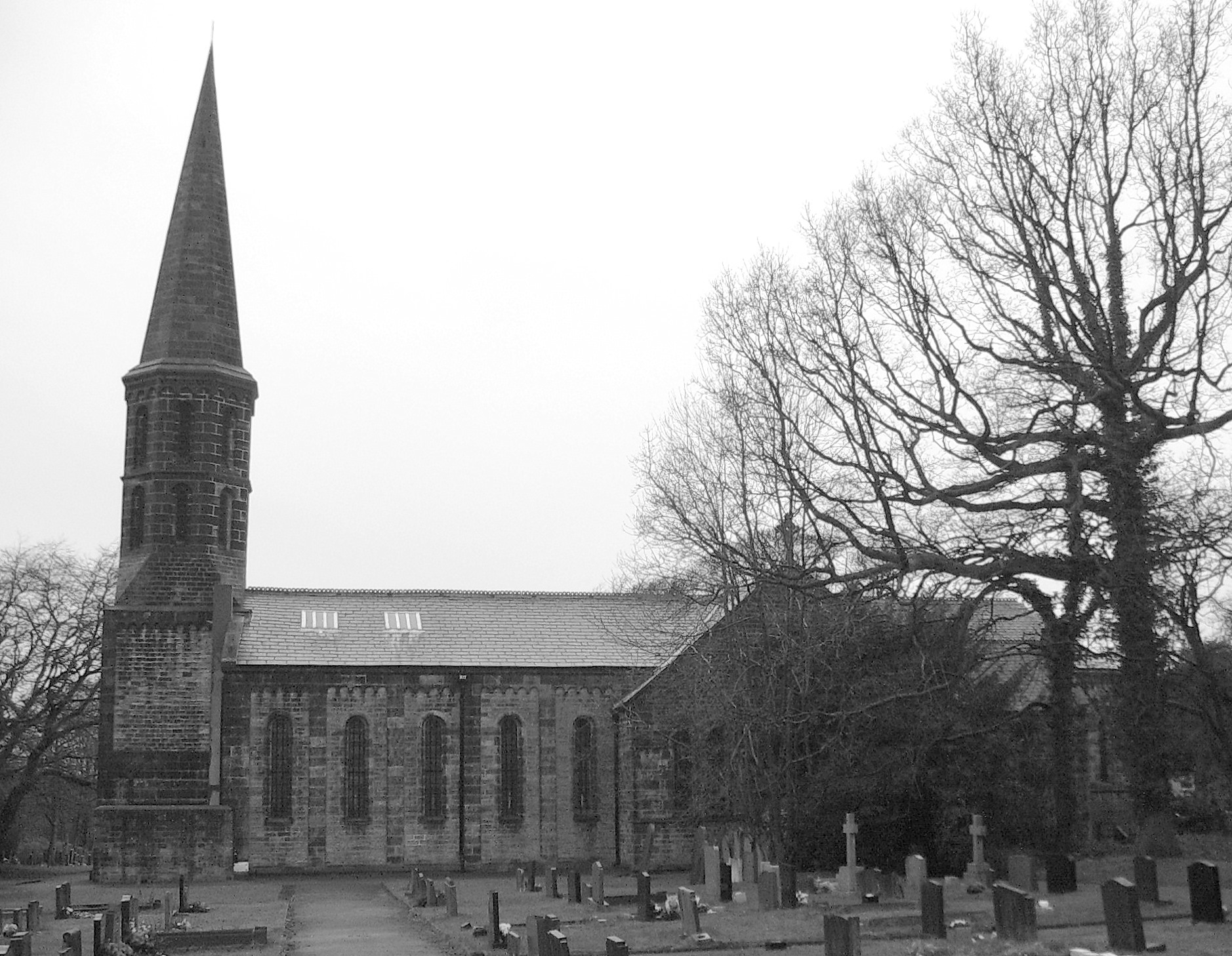 St Saviour's Church, Cuerden, Lancashire, seen from the southeast